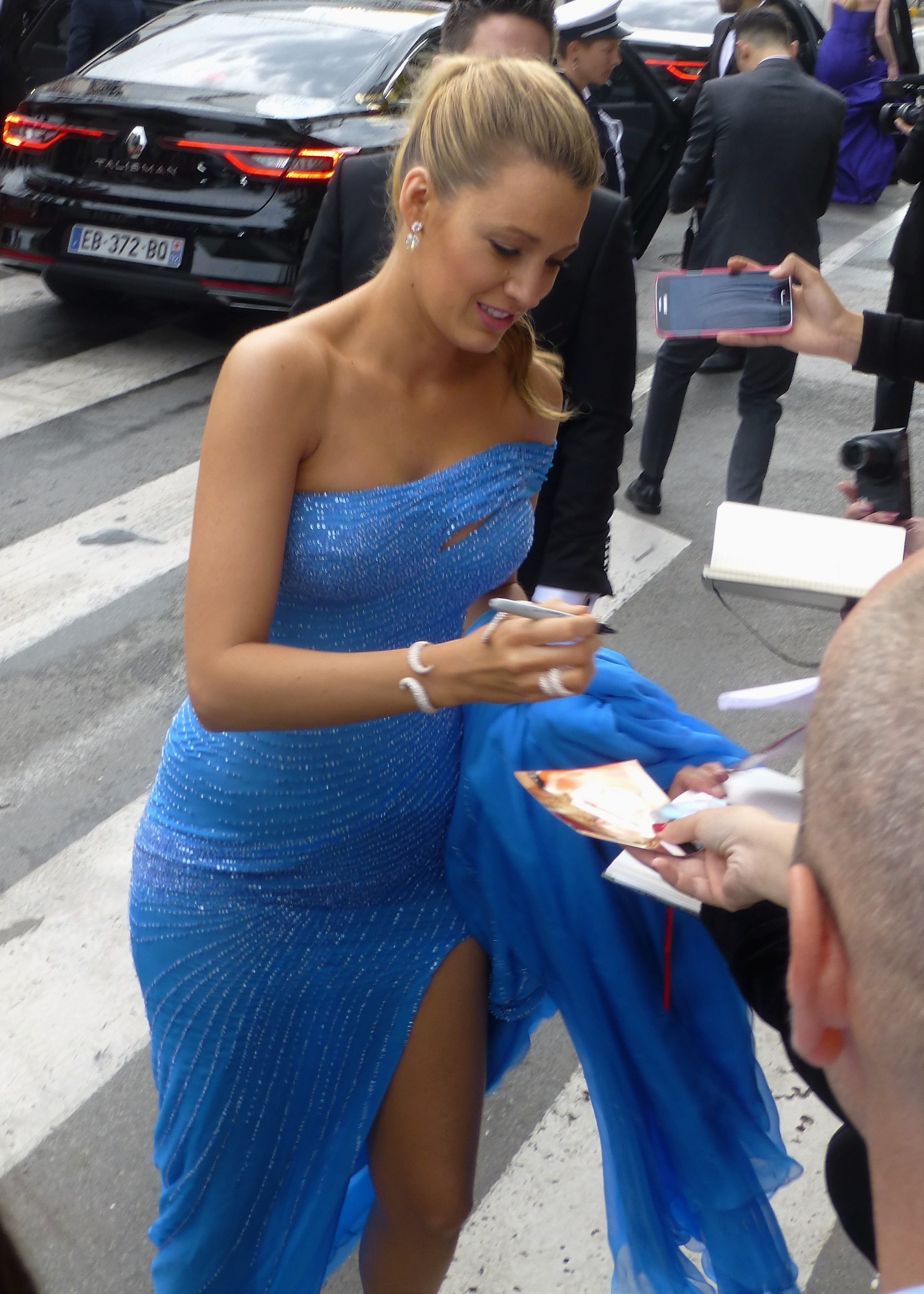 Blake Lively at the world premiere of The BFG, 2016 Cannes Film Festival